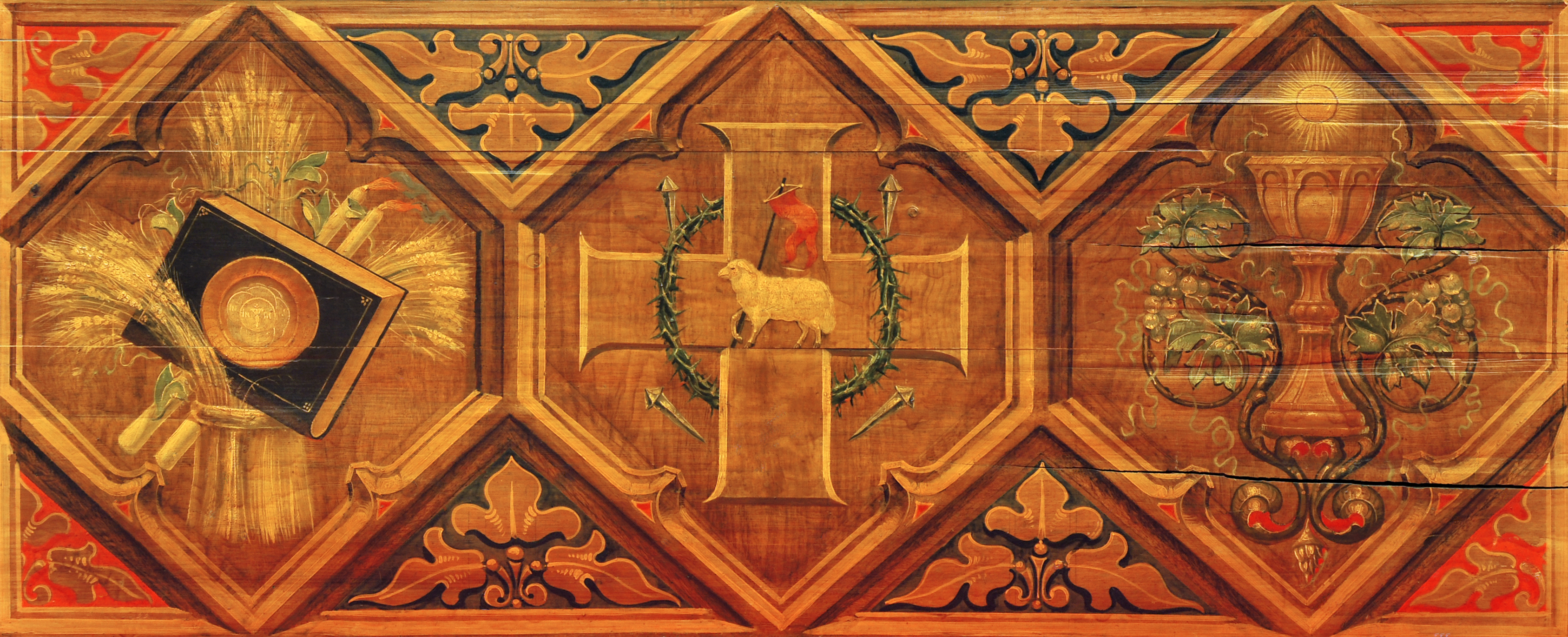 Predella on the bottom of the Altar in the St. Dionysius-church of Adensen in Nordstemmen, district Hildesheim, Lower Saxony, Germany. The Altar is made by the architect Wellenkamp in the year 1852.